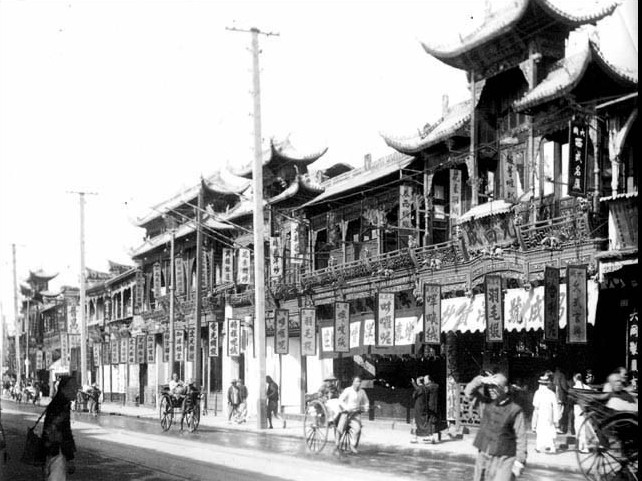 Nanjing Road, Shanghai, in Late Qing period.